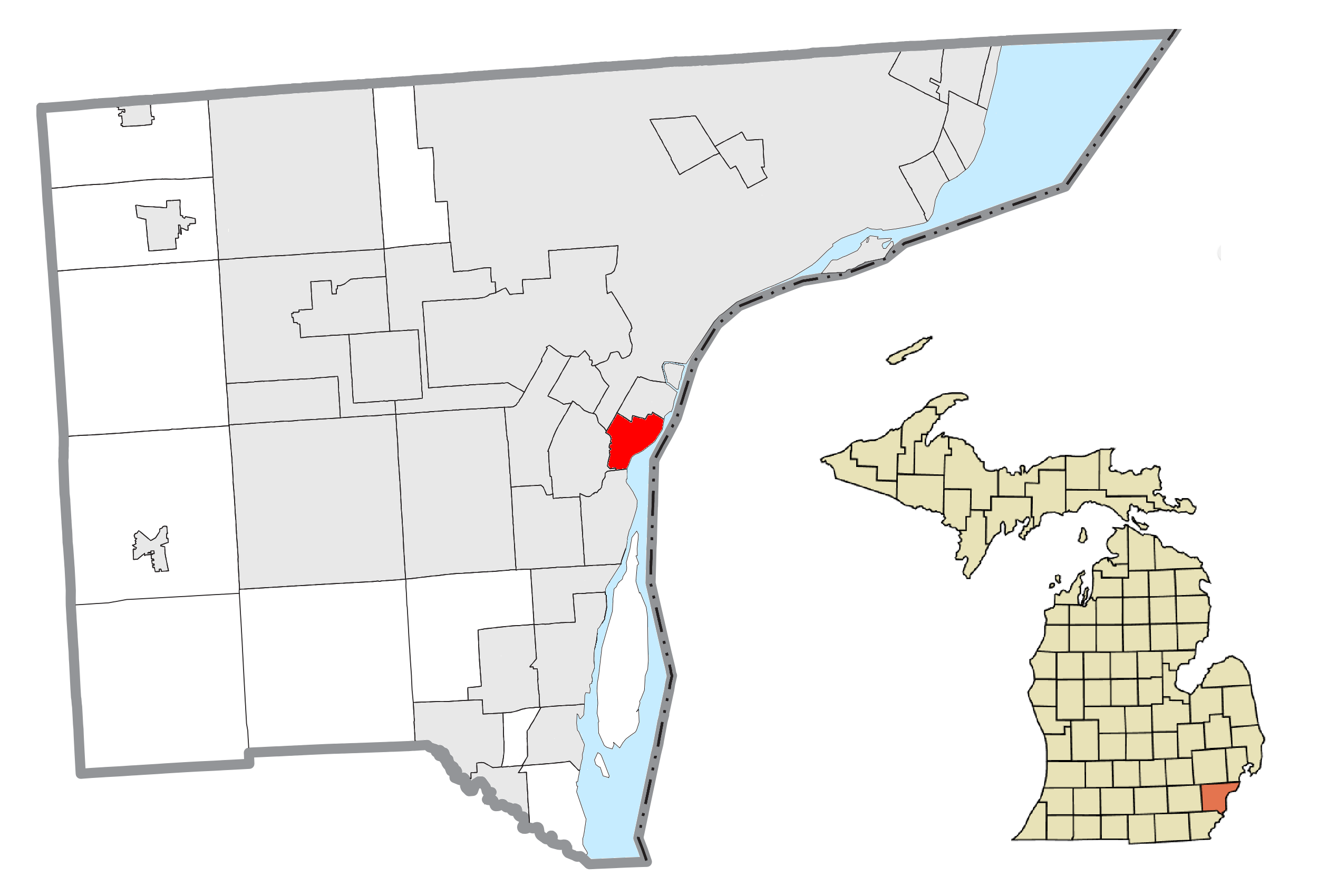 Ecorse, MI